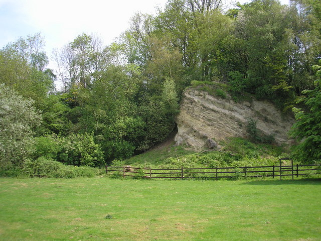 Ragstone outcrop, Dryhill Nature Reserve, Kent. Dryhill Local Nature Reserve is to be found just south of the A25 near Sundridge village. This fine Ragstone outcrop and other interesting rock formations are to be seen.